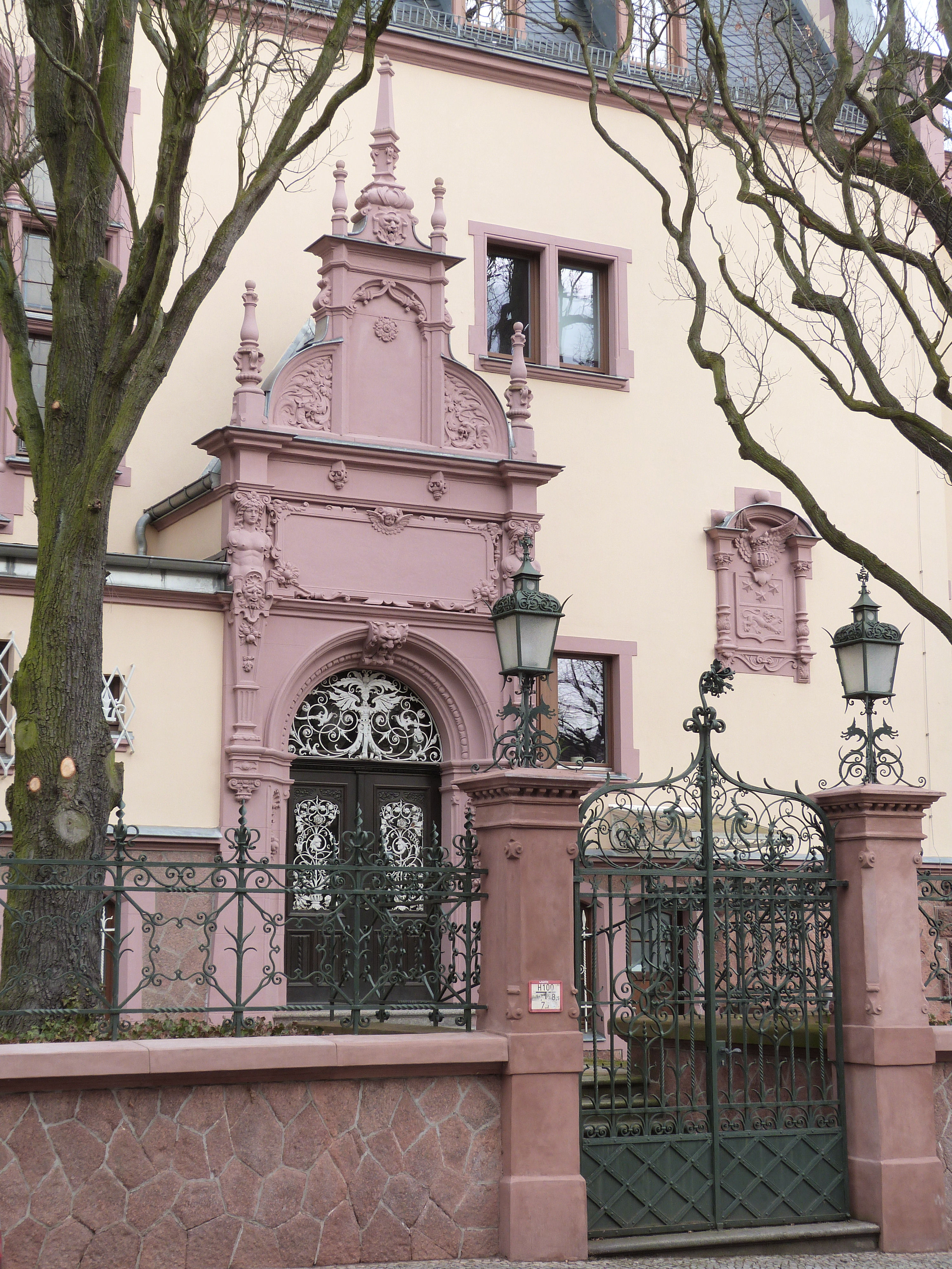 Villa Riedel, Advokatenweg No. 36 in Halle (Saale)